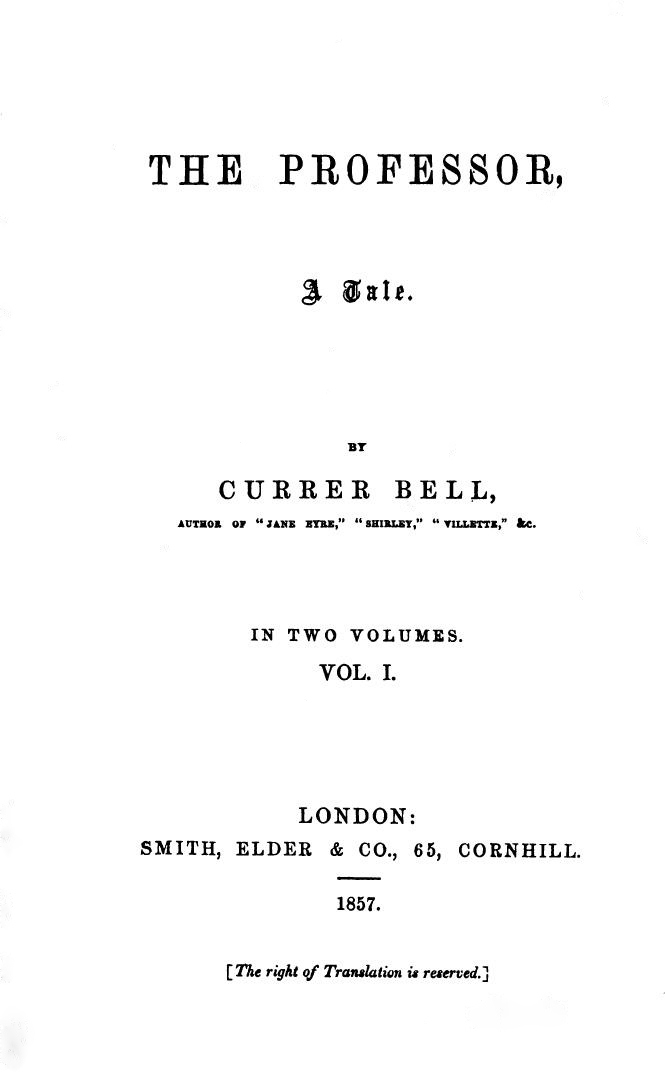 First edition title page of The Professor by Charlotte Bronte